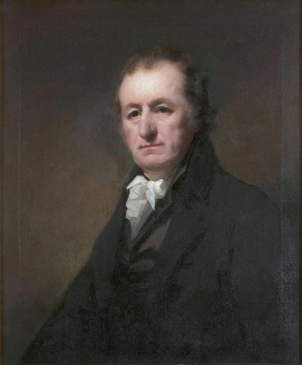 Robert Scott Moncrieff oil on canvas 74 x 61.5 cm